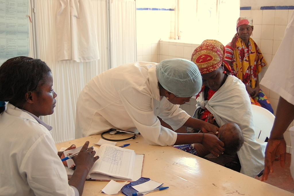 A nurse in a local clinic in Huambo Province, Angola, checks a patient and her baby before prescribing anti-malarial drugs. Photo Credit: USAID/Alison Bird.